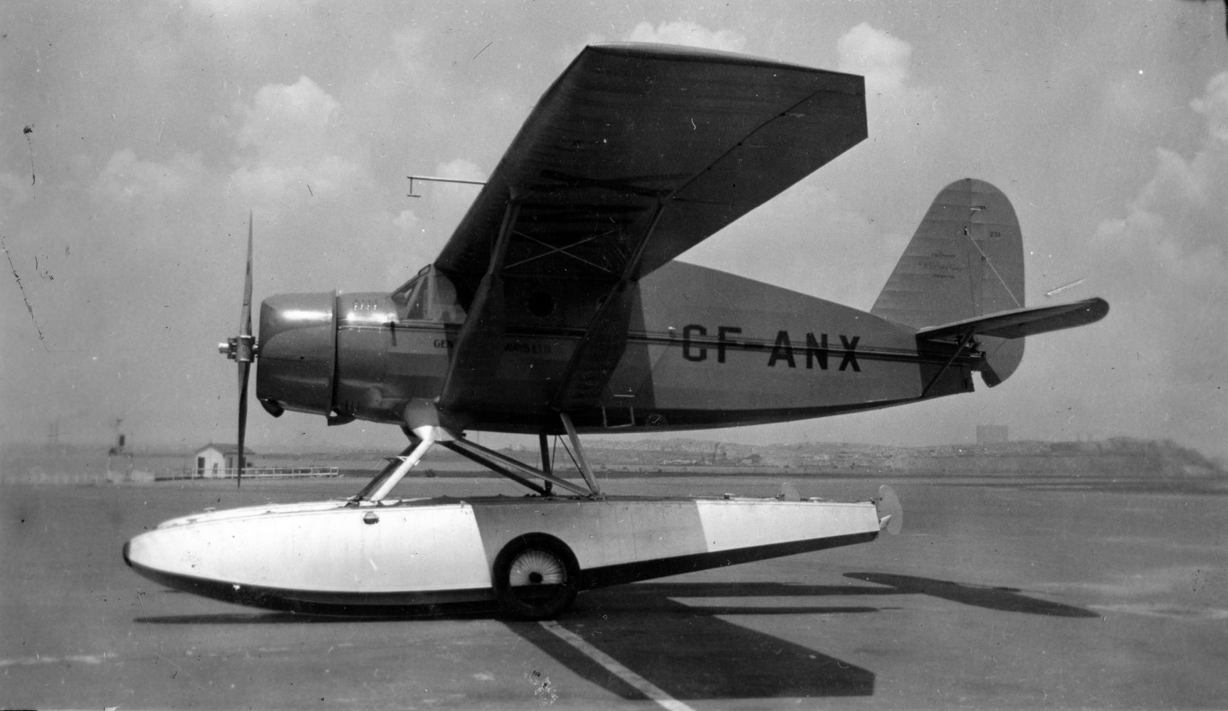 Images from an Album (AL-61A) which belonged to Mr. Lowry and was donated to the Leisure World Aerospace Club. Repository: San Diego Air and Space Museum Archive